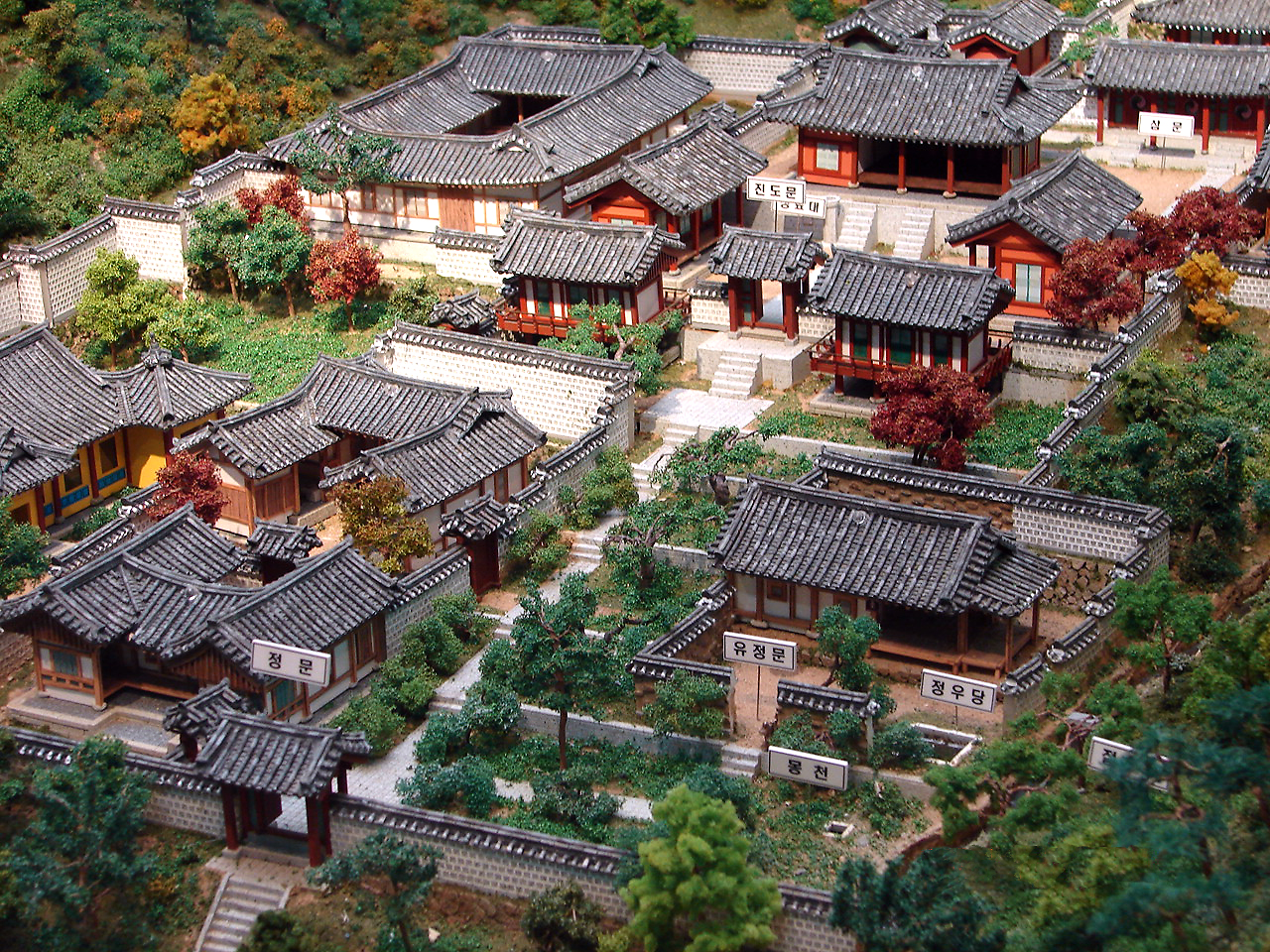 Dosan Seowon Model - Confucian Academy, was established in 1574 in Andong, South Korea, in memory of Confucian scholar Yi Hwang by some of his disciples and other Confucian authorities and serves two purposes: education and commemoration. Commemorative ceremonies have been and are still held twice a year and was featured on the reverse of the South Korean 1,000 won bill from 1975 until 2007.